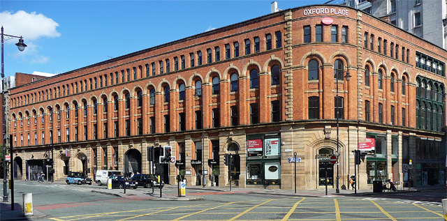 Striking former warehouse on Portland Street. Built c1860 by P. Nunn for Louis Behrens & Sons. Grade II listed.